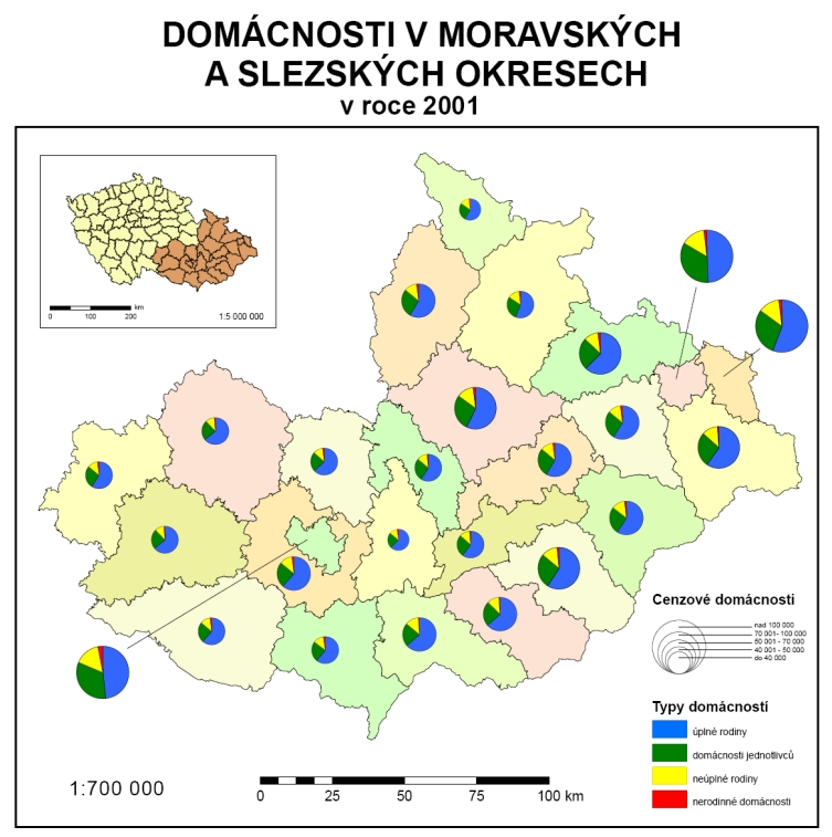 A map with proportional symbols (Kartodiagram). Moravian districts.